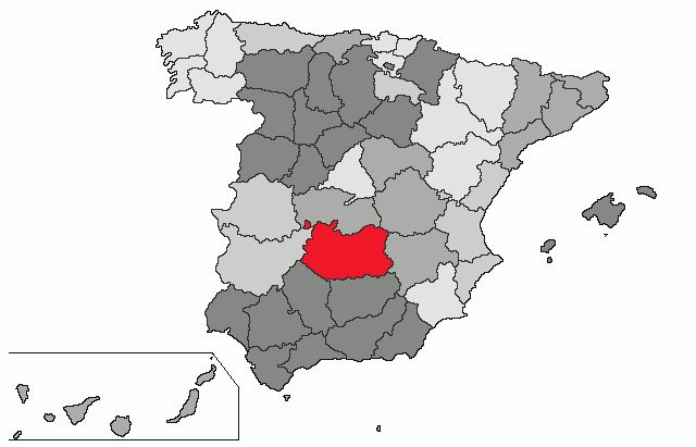 Location of the province of Ciudad Real in Spain Basado en: Image:ProvPont.jpg